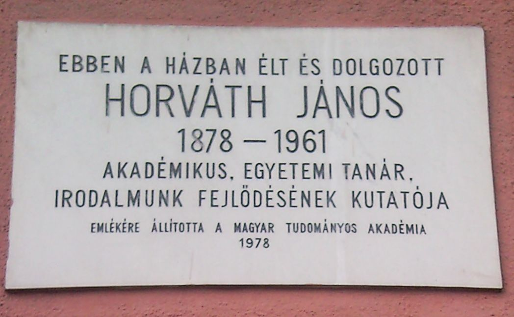 János Horváth (literary historian) commemorative plaque in Budapest District XI, Bocskai Street No 27.